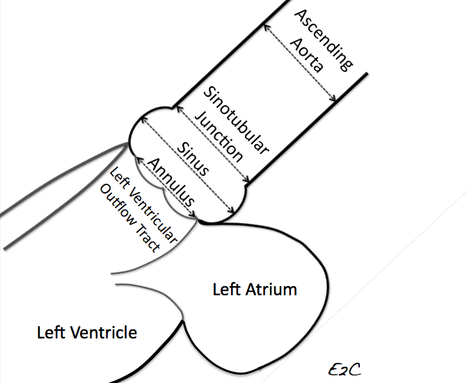 Ascending aorta including the annulus, sinus, sinotubular junction, and tubular part of the ascending aorta